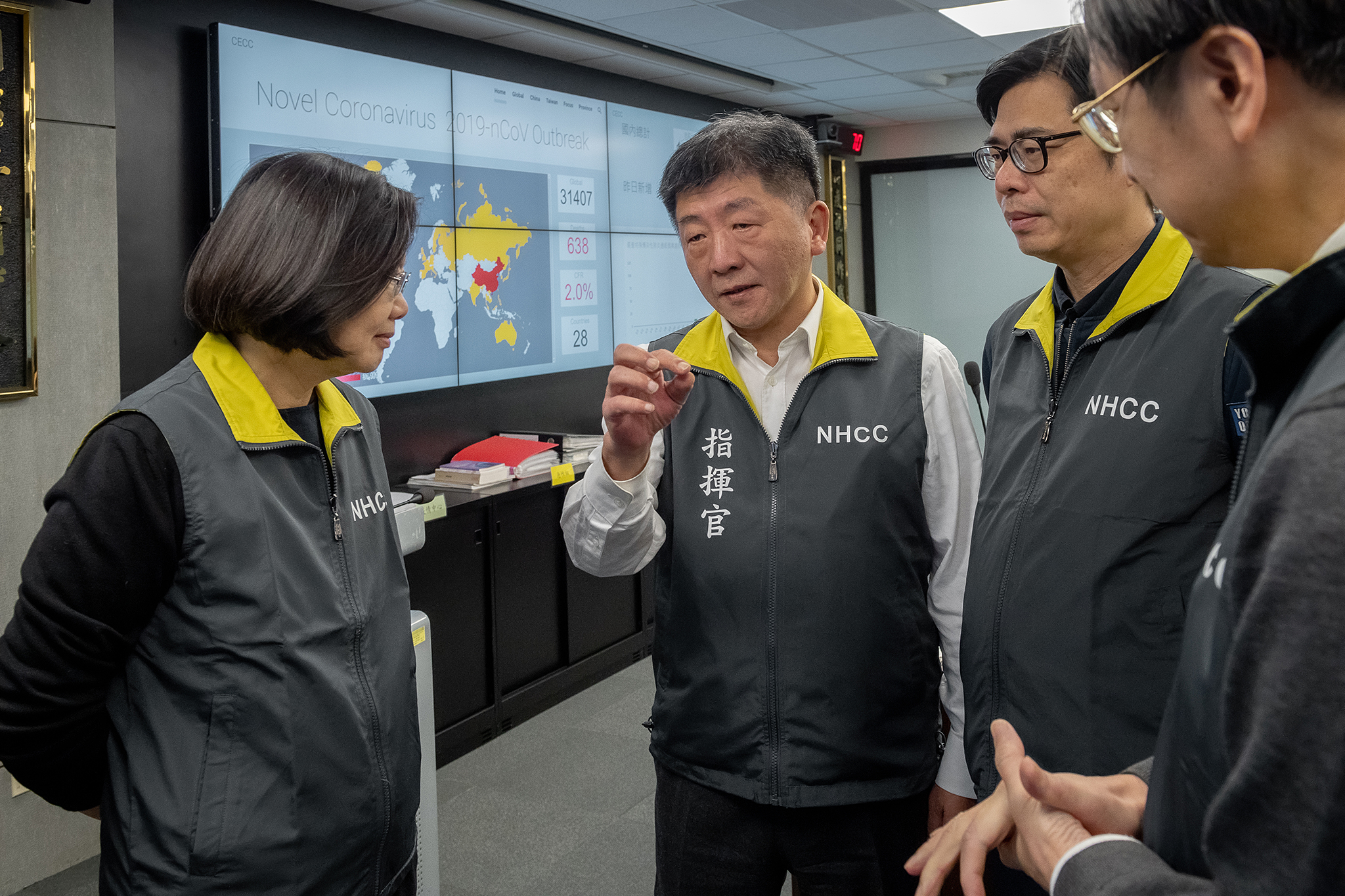 Official Photo by Makoto Lin / Office of the President